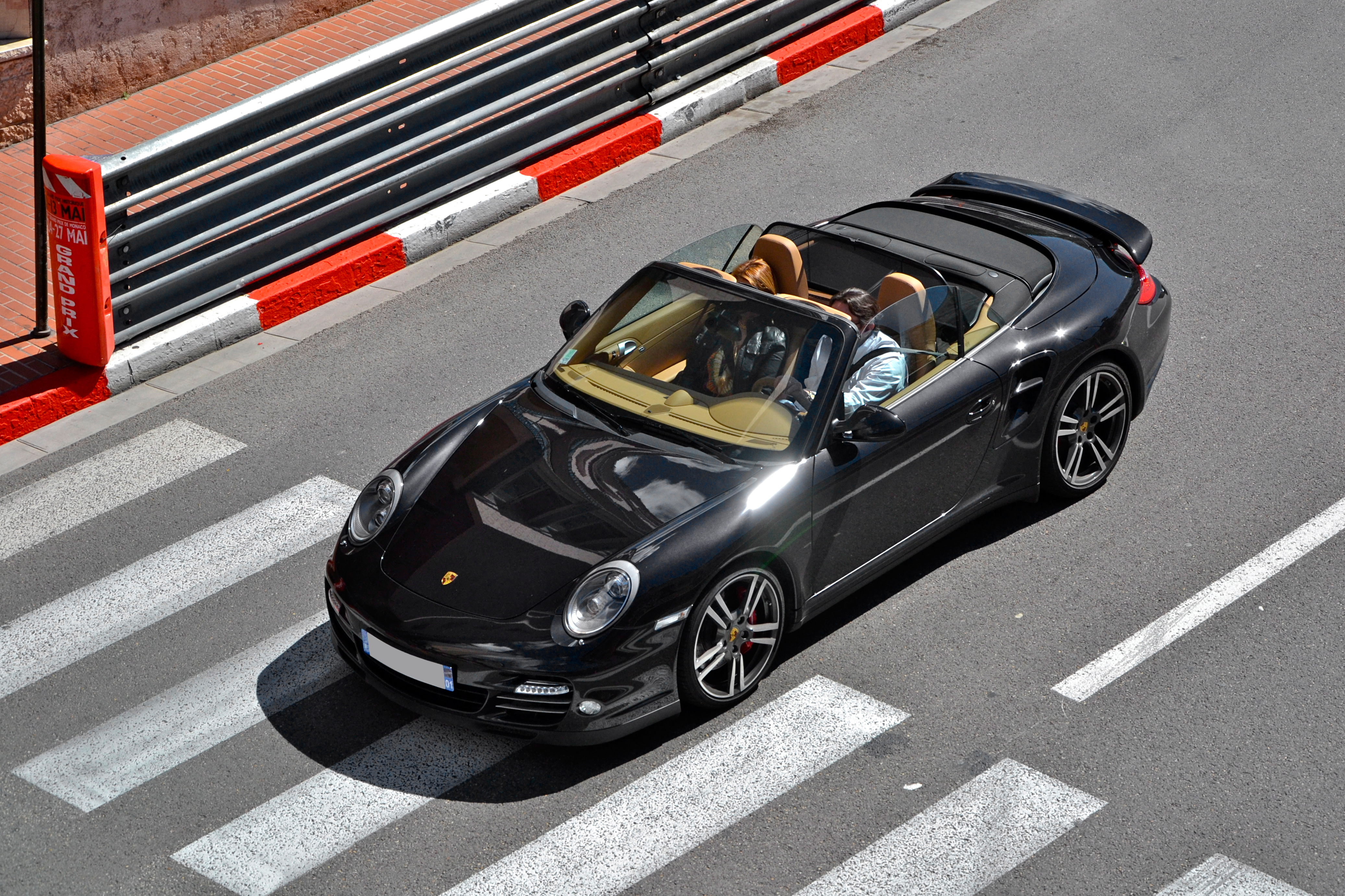 Porsche 911 Turbo Cabriolet